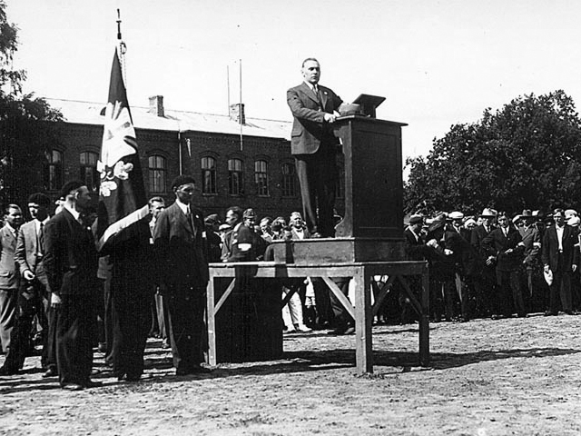 a meeting of the Union of Participants in the Estonian War of Independence, Parnu, Estonia. Speaking Artur Sirk